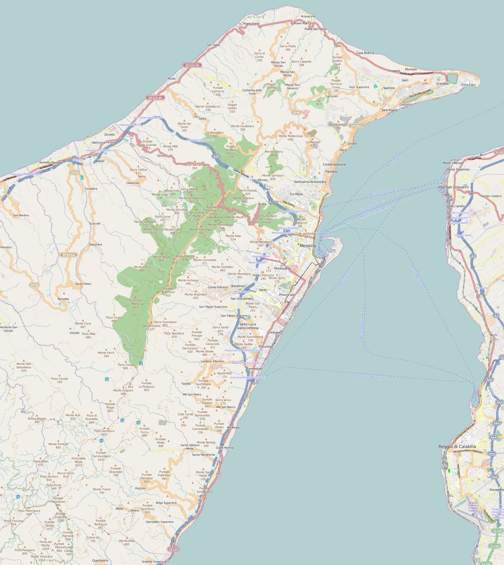 Map of Messina, Italy This map of Messina was created from OpenStreetMap project data, collected by the community. This map may be incomplete, and may contain errors. Don't rely solely on it for navigation.